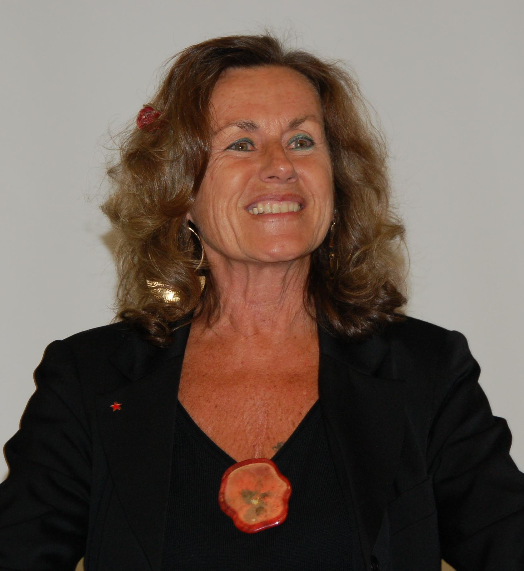 Bernardine Dohrn speaking at a Students for a Democratic Society (SDS) reunion held at Michigan State University.